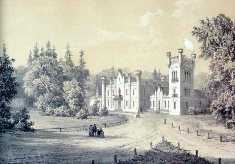 Palace of Kasakovskiai